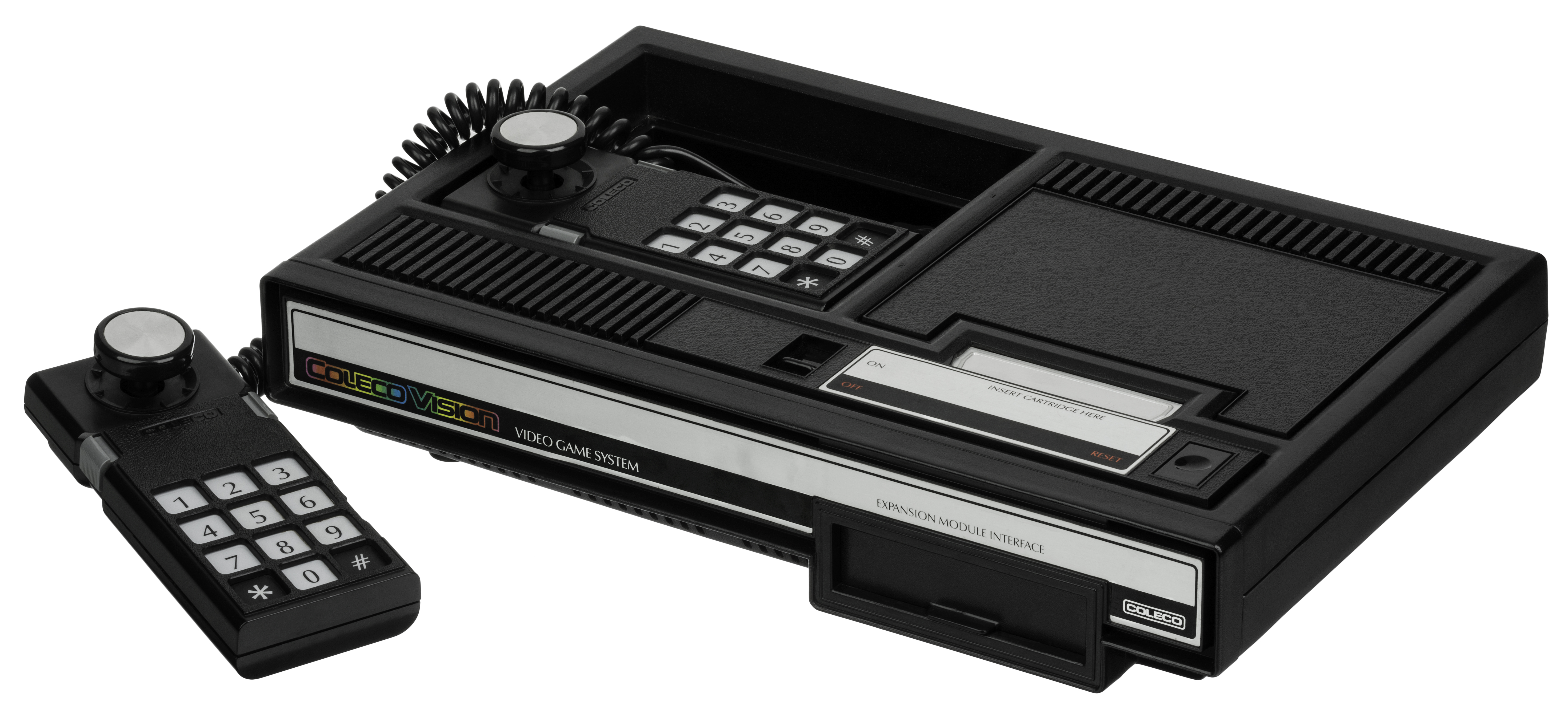 The ColecoVision console, a second generation gaming console released in 1982 by Coleco Industries. The ColecoVision faced off against the older Atari 2600, and enjoyed moderate success when released due to its higher quality arcade ports. By 1983, however, the video game industry crash greatly hurt all gaming console manufacturers, leading to Coleco Industries bowing out of the gaming industry by 1985.